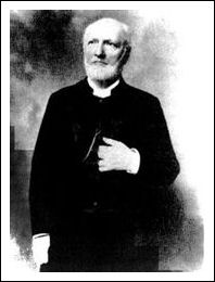 Philip Schaff